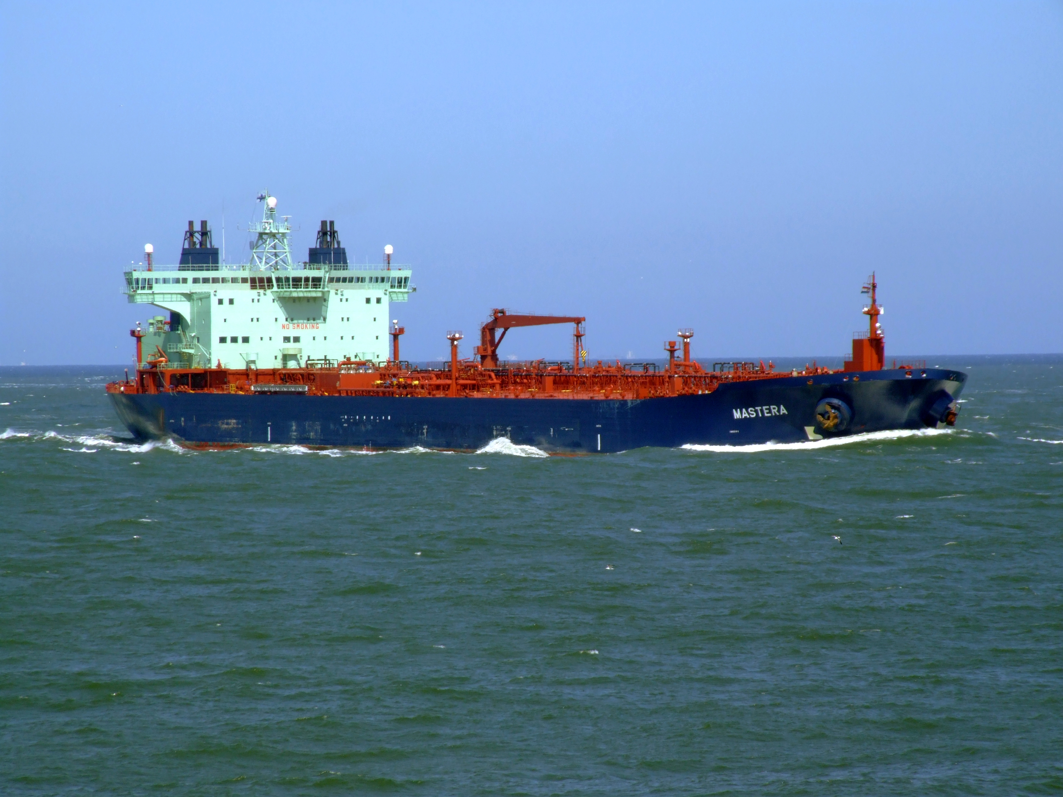 Mastera approaching Port of Rotterdam, Holland 20-Jun-2007.